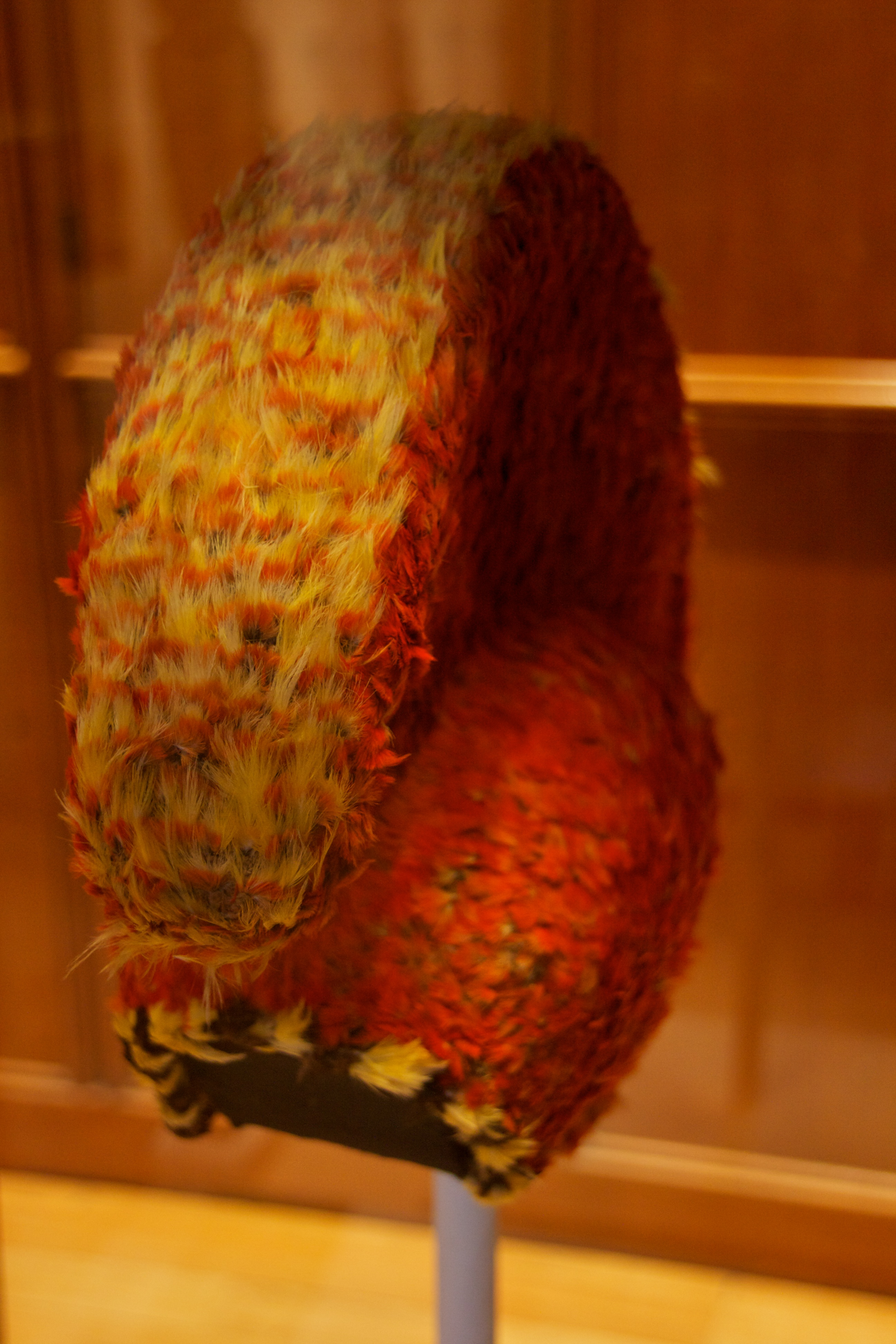 Hawaiian feather helmet. object 87 of 100. AD 1700s. Feathers, wicker basketry. AOA HAW 108. British Museum.